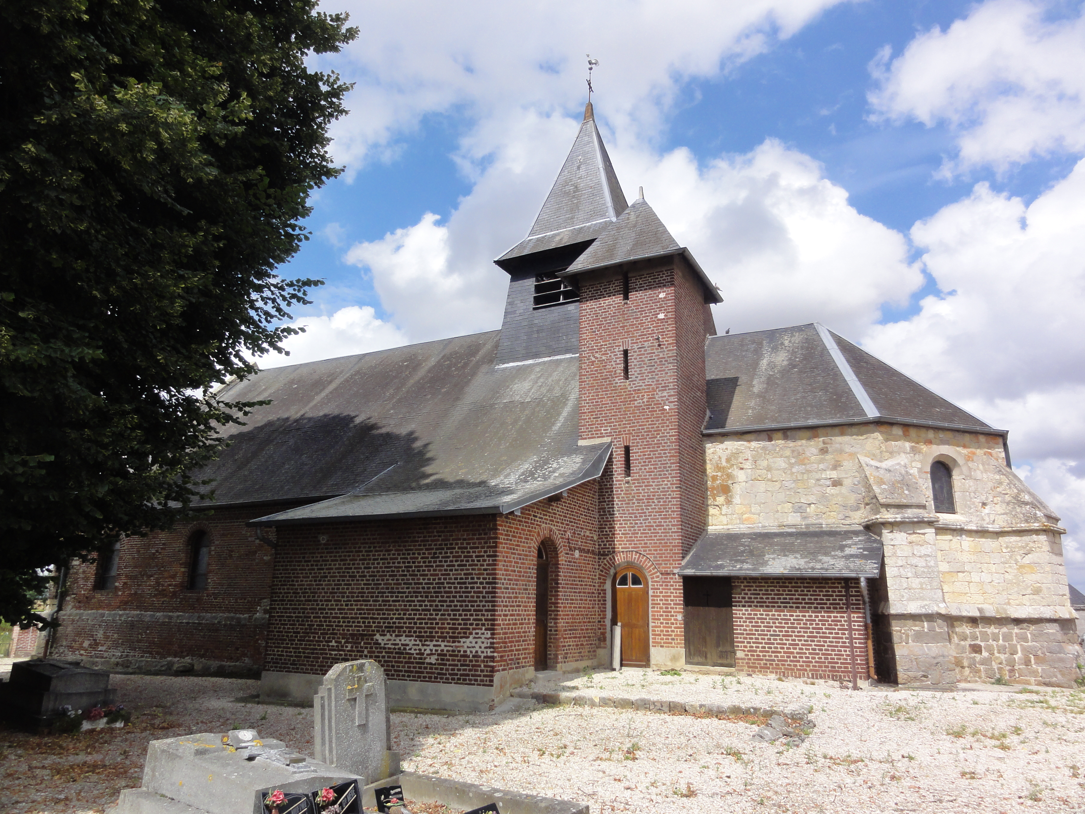 Dury (Aisne) église Saint-Médard